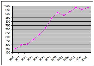 Line graph of the population of the Guernsey parish of Torteval